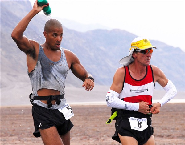 Navy Petty Officer 1st Class David Goggins crosses Death Valley alongside French competitor Albert Vallee in the Badwater Ultramarathon in 2007.